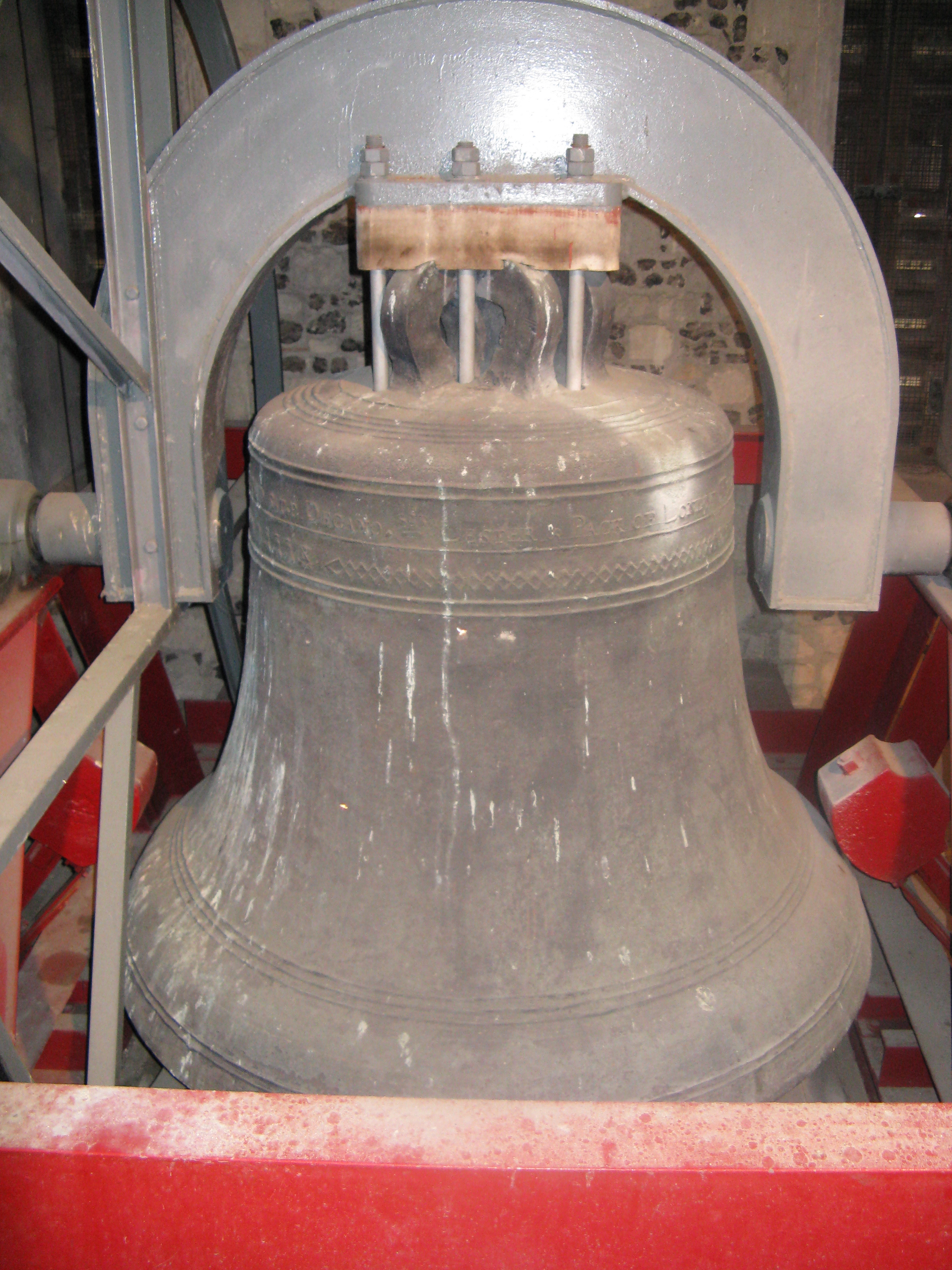 Great Dunstan